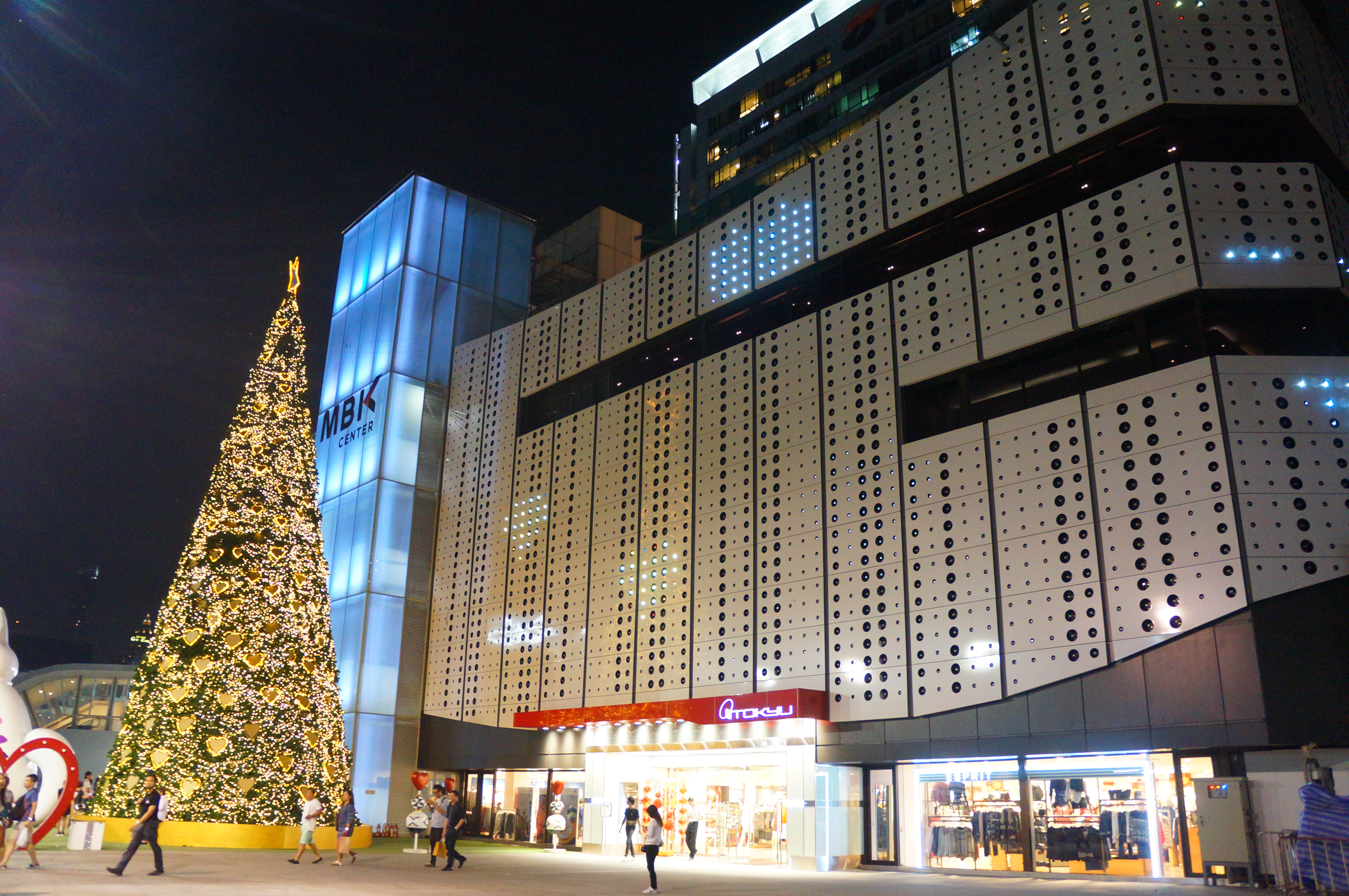 201701 Bangkok Tokyu Department Store, surprise to see a Japanese store here